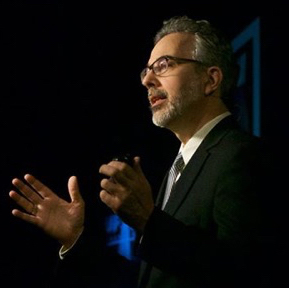 Dolan at the International UFO Congress in March 2017